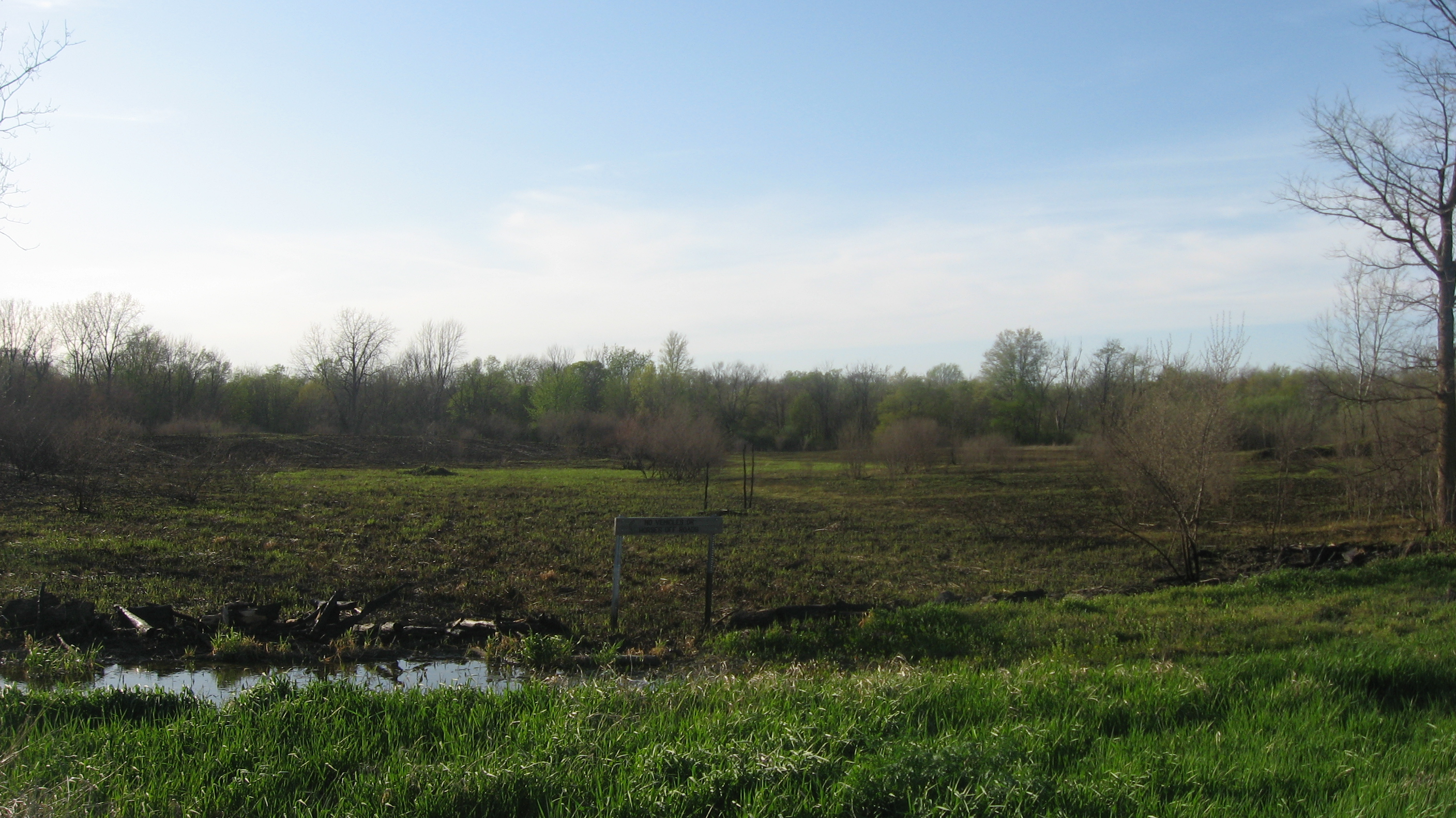 Looking northwest across fields at the Wilbur Wright State Fish and Wildlife Area, located north of New Castle in Prairie Township, Henry County, Indiana, United States. In the distance is the New Castle Archaeological Site, an important archaeological site of the Hopewell culture; it is listed on the National Register of Historic Places.